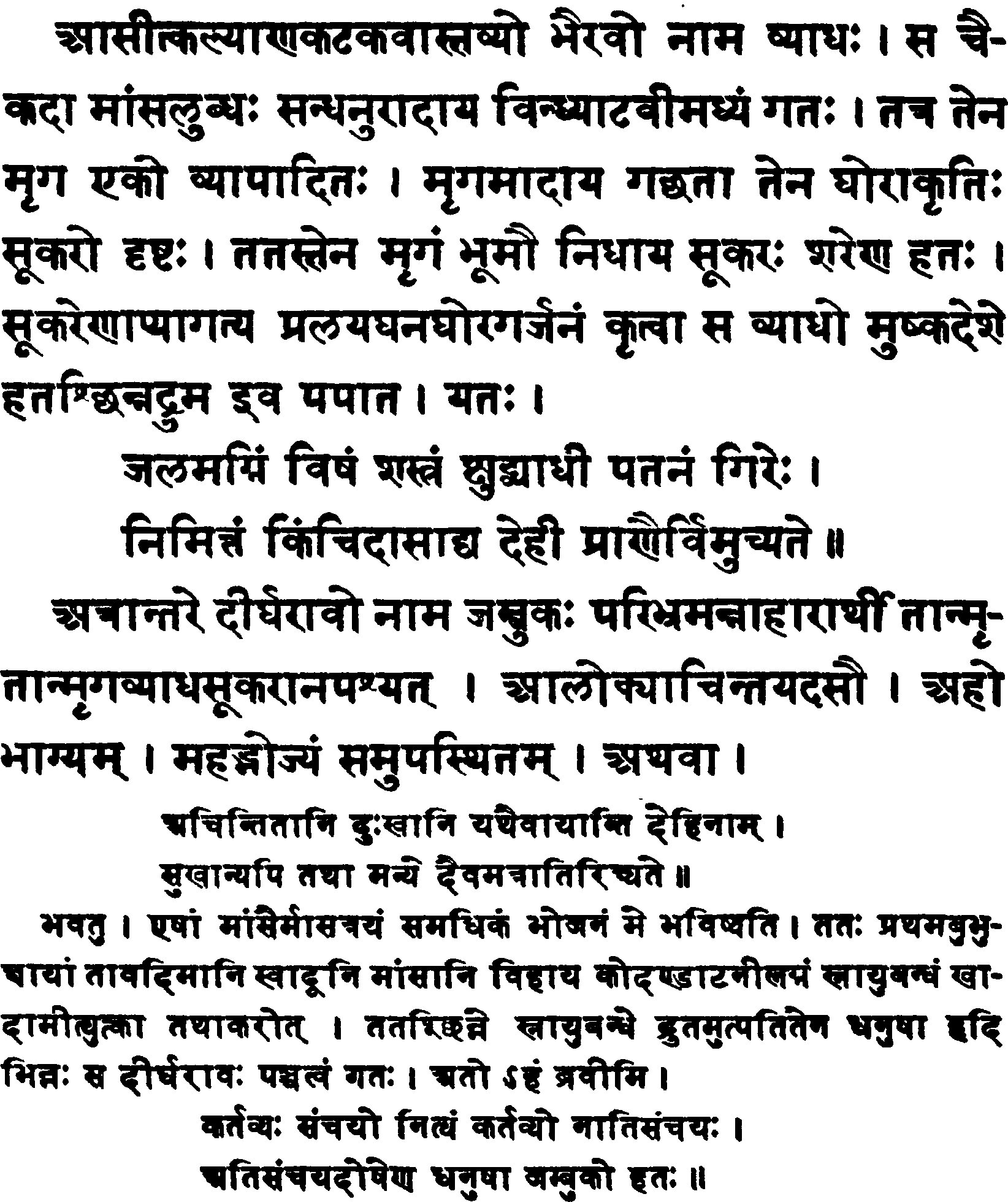 Example of Sanskrit type from Appendix A of Whitney's Sanskrit Grammar